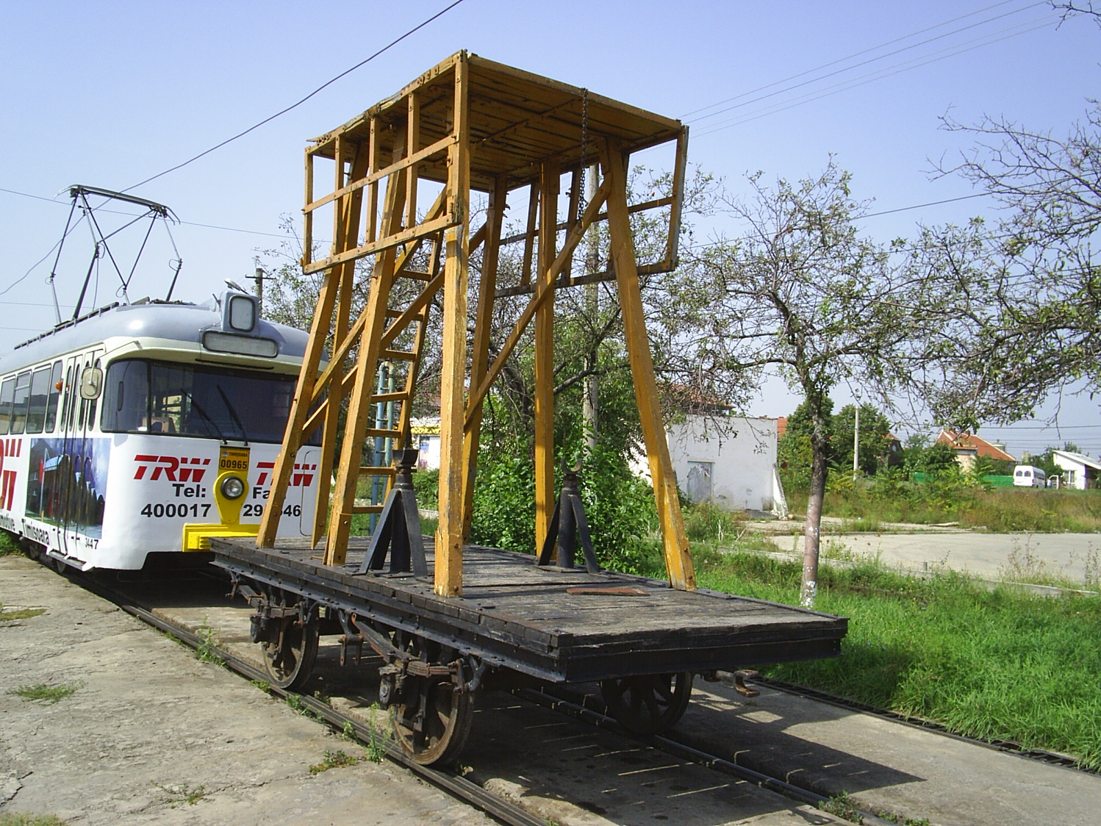 Turn tram trailer